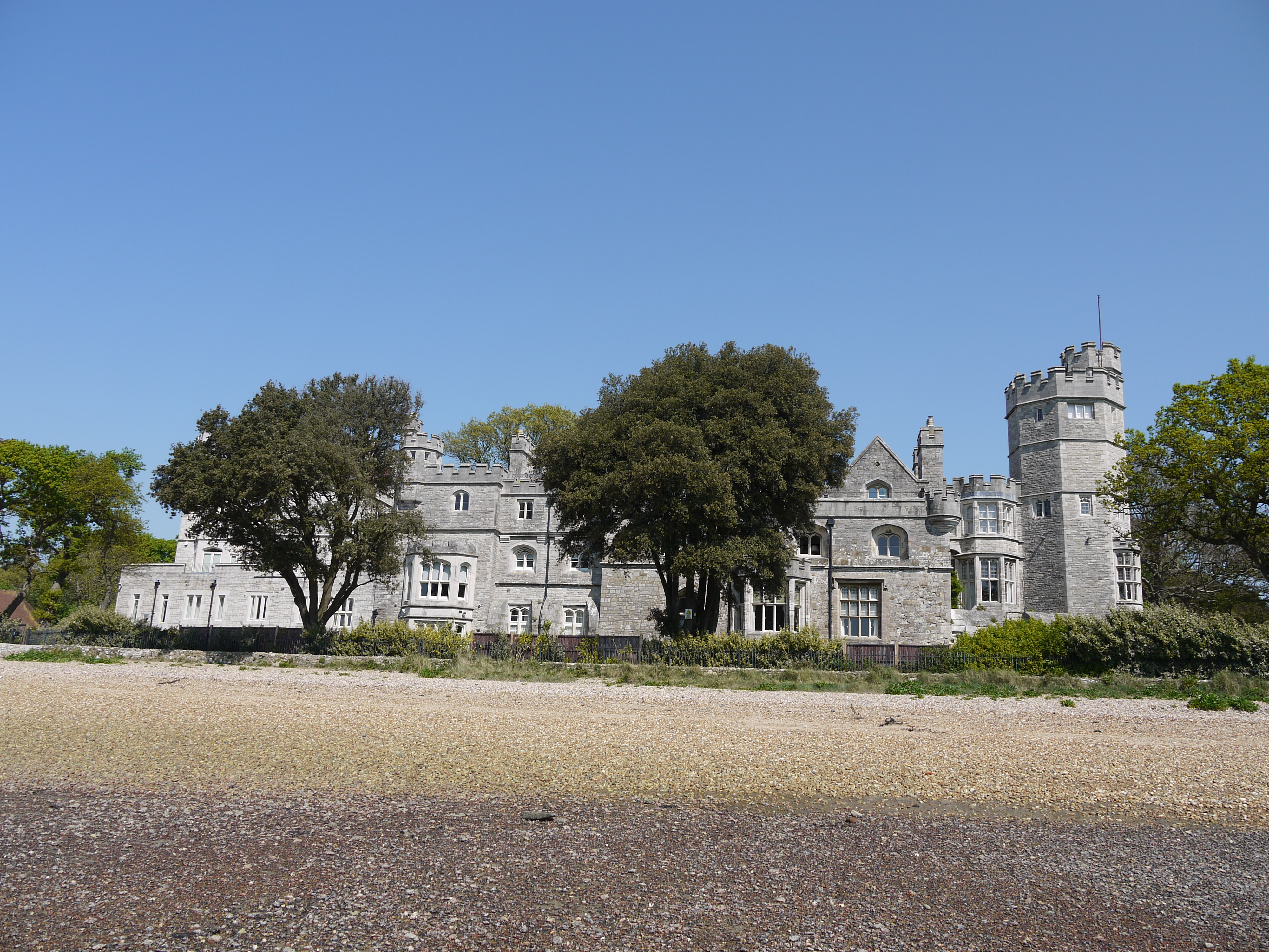 Photo of Netley Castle taken from the foreshore